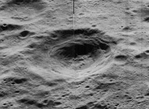 Oblique view of Harriot, on the far side of the moon, facing west.